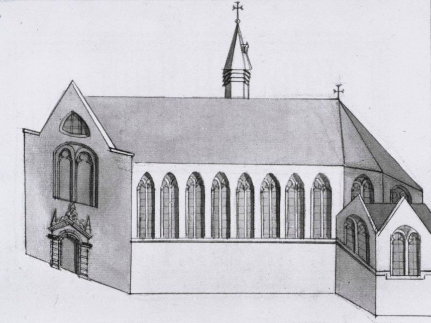 Augustijnenkerk, Brugge